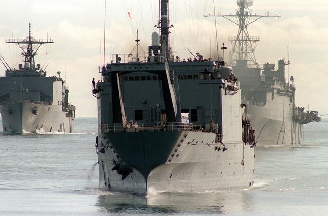 Port bow view of USS Spartanburg County (LST-1192), in company with USS Whidbey Island (LSD-41), background left, and USS Nashville (LPD-13), background, right, participating in "leapfrog" maneuvering drills while en route to NATO exercise Northern Wedding `86. North Atlantic Ocean, 1 August 1986, Photo by PHC Jeff Hilton USN. Department of Defense photo # DNSC8705004